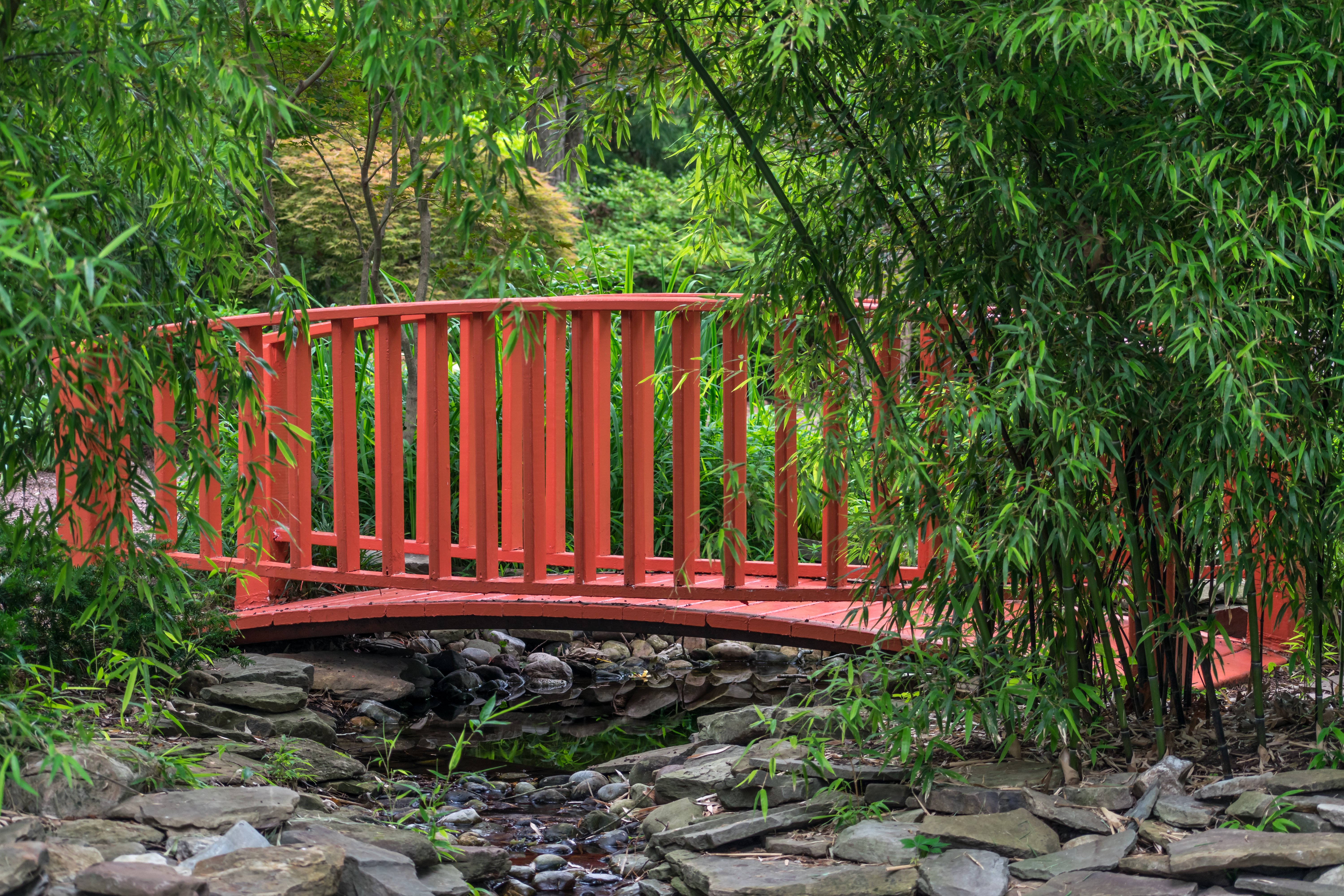 View from west of red-orange Japanese-style moon bridge in the Miyazaki Japanese Garden portion of Red Wing Park, Virginia Beach, Virginia, USA. They are sister cities.